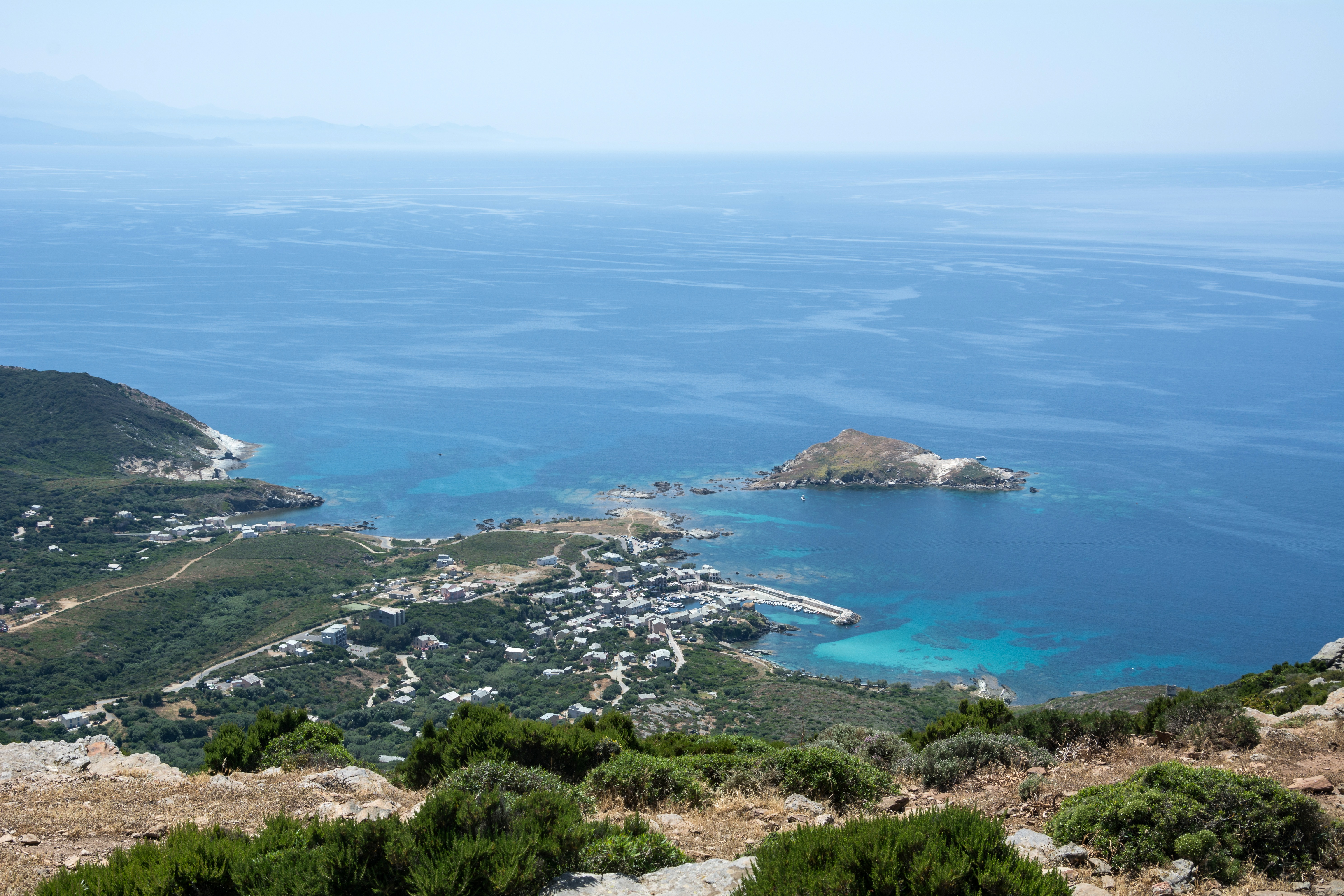 Port of Centuri is the most northern village at the westcoast of Cap Corse.